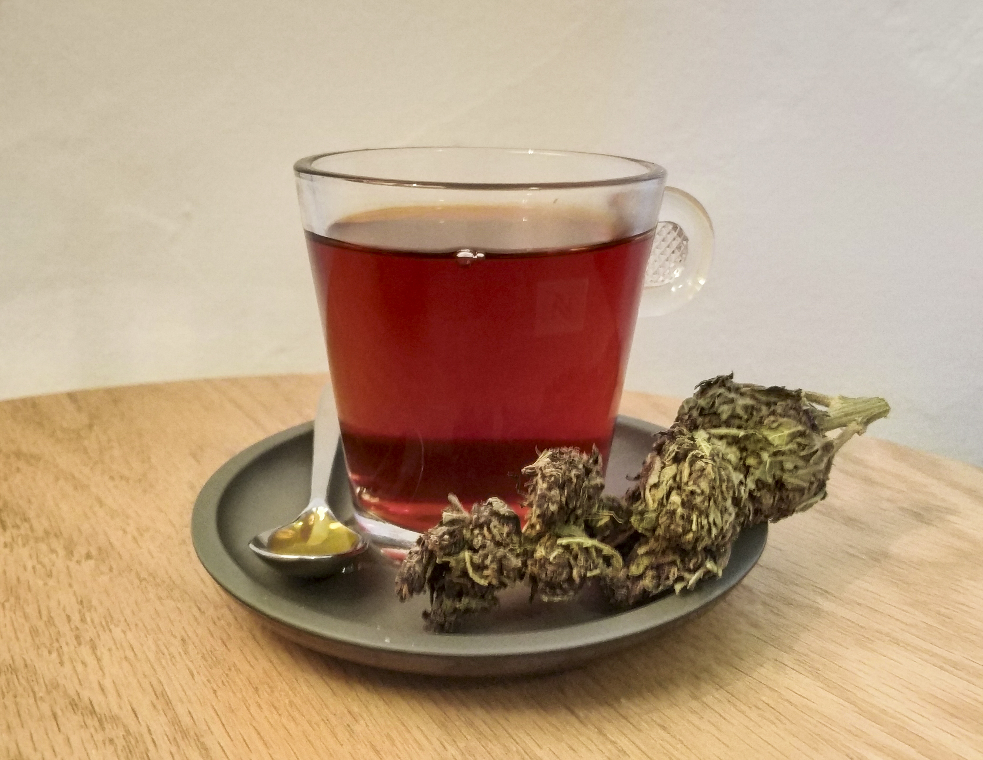 Infusion of marijuana with cinnamon and a spoonful of agave honey, CDMX, Mexico (12/22/2019)